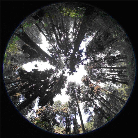 Creative Commons attribution "photo by S.B. Weiss". Hemispherical photograph of winter roosting habitat at Monarch Biosphere Reserve, Mexico.